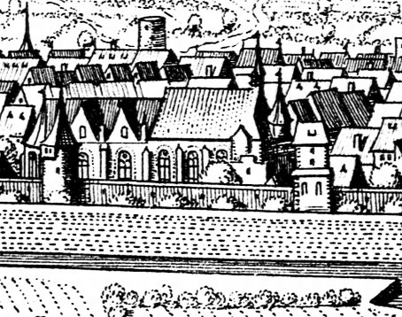 Minster Church of St. Alexander's and Knochenturm Einbeck (snipped of city view) - engraved by Caspar Merian (1627–1686) after Conrad Buno, published by Matthäus Merian the younger (1621–1687)